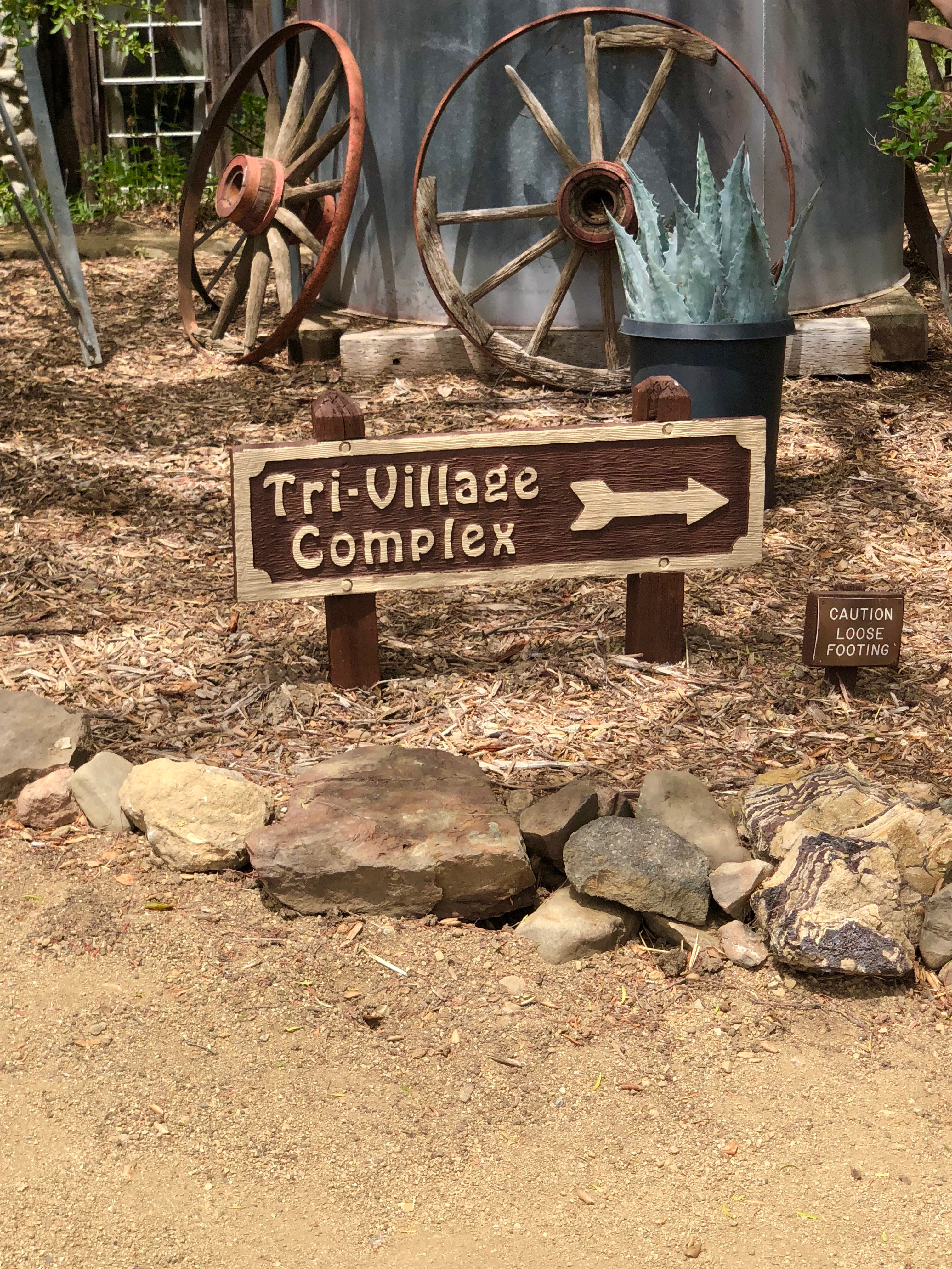 Sign for the Tri-Village Complex at Stagecoach Inn in Newbury Park, CA.